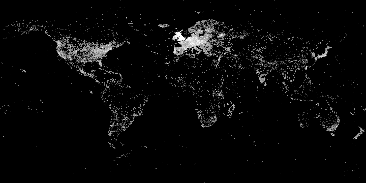 Geolocated images in Wikimedia Commons (2.9M). United Kingdom is overpopulated of geolocated images from the Geograph British Isles project.